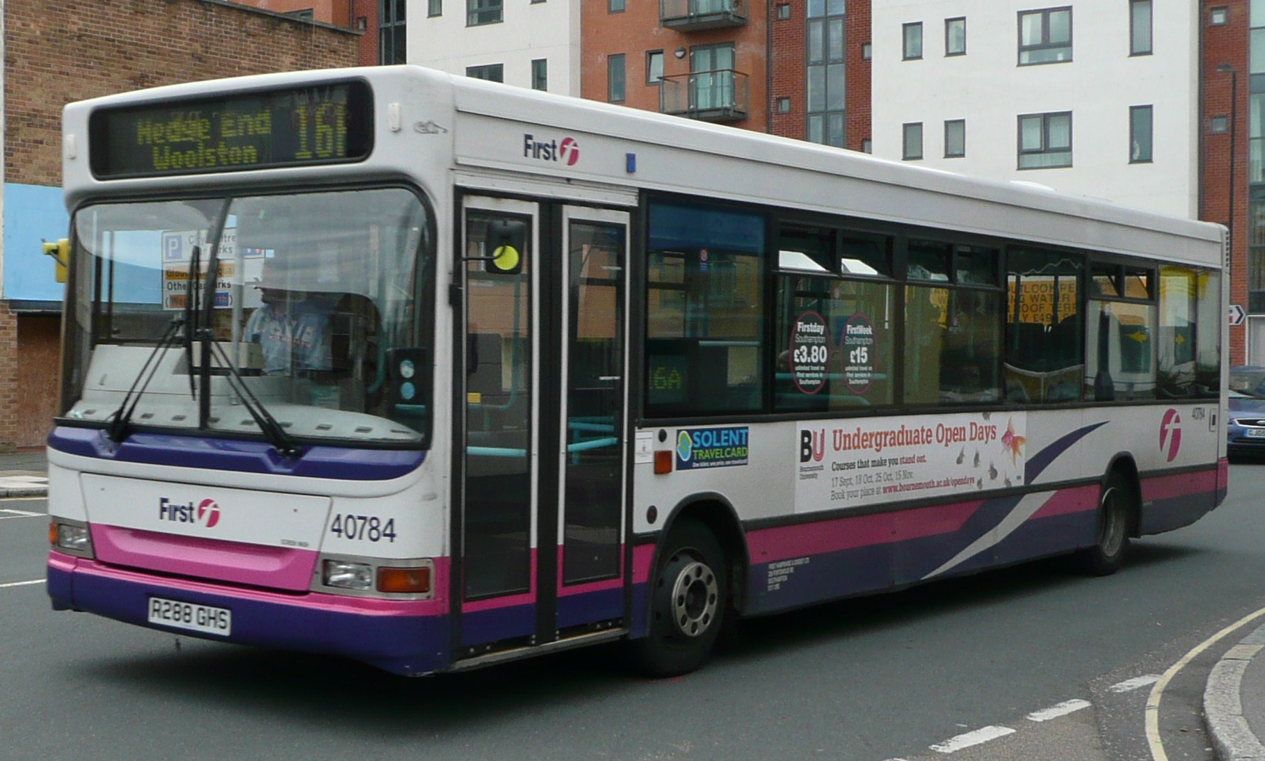 First Hampshire & Dorset's 40784 (R288 GHS), a Dennis Dart SLF/Plaxton Pointer 2 in Queensway, Southampton, on route 16A.